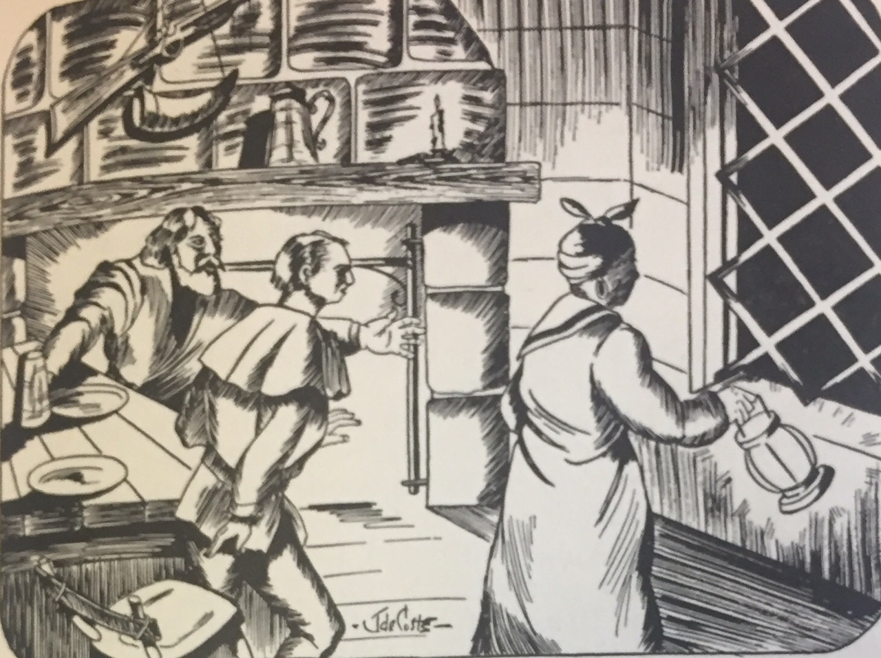 Commander Joseph Gorham, Siege of Fort Cumberland, 1776